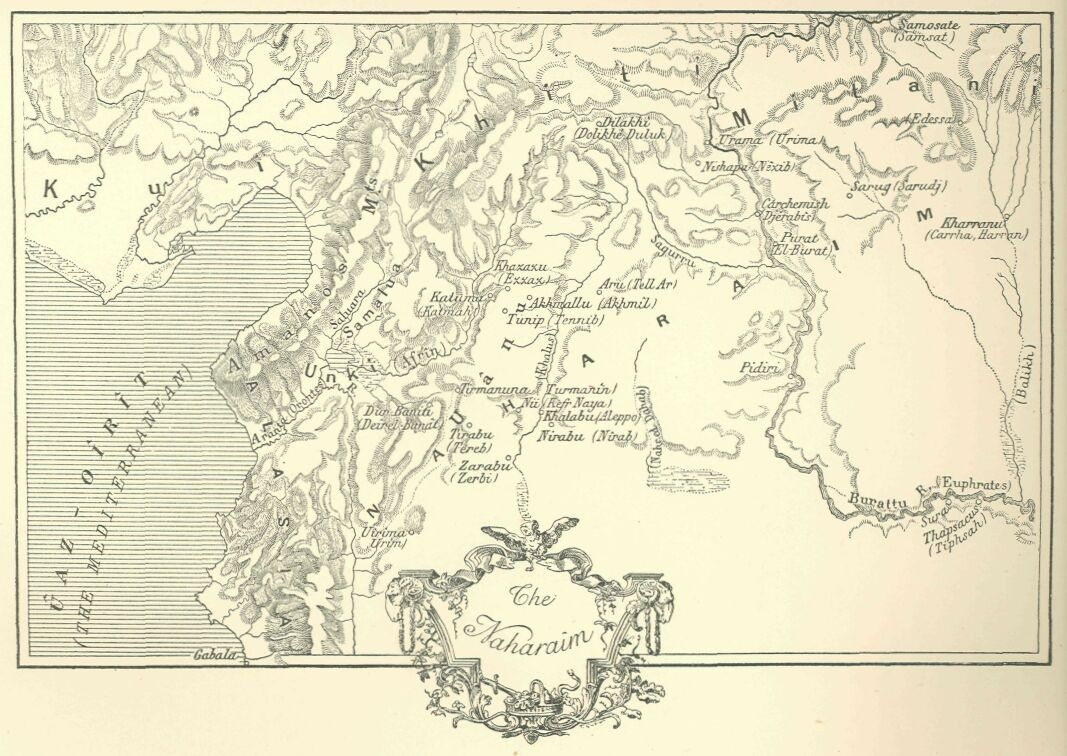 Illustration in Gaston Maspero (1846-1916): History of Egypt showing the state Naharaim.